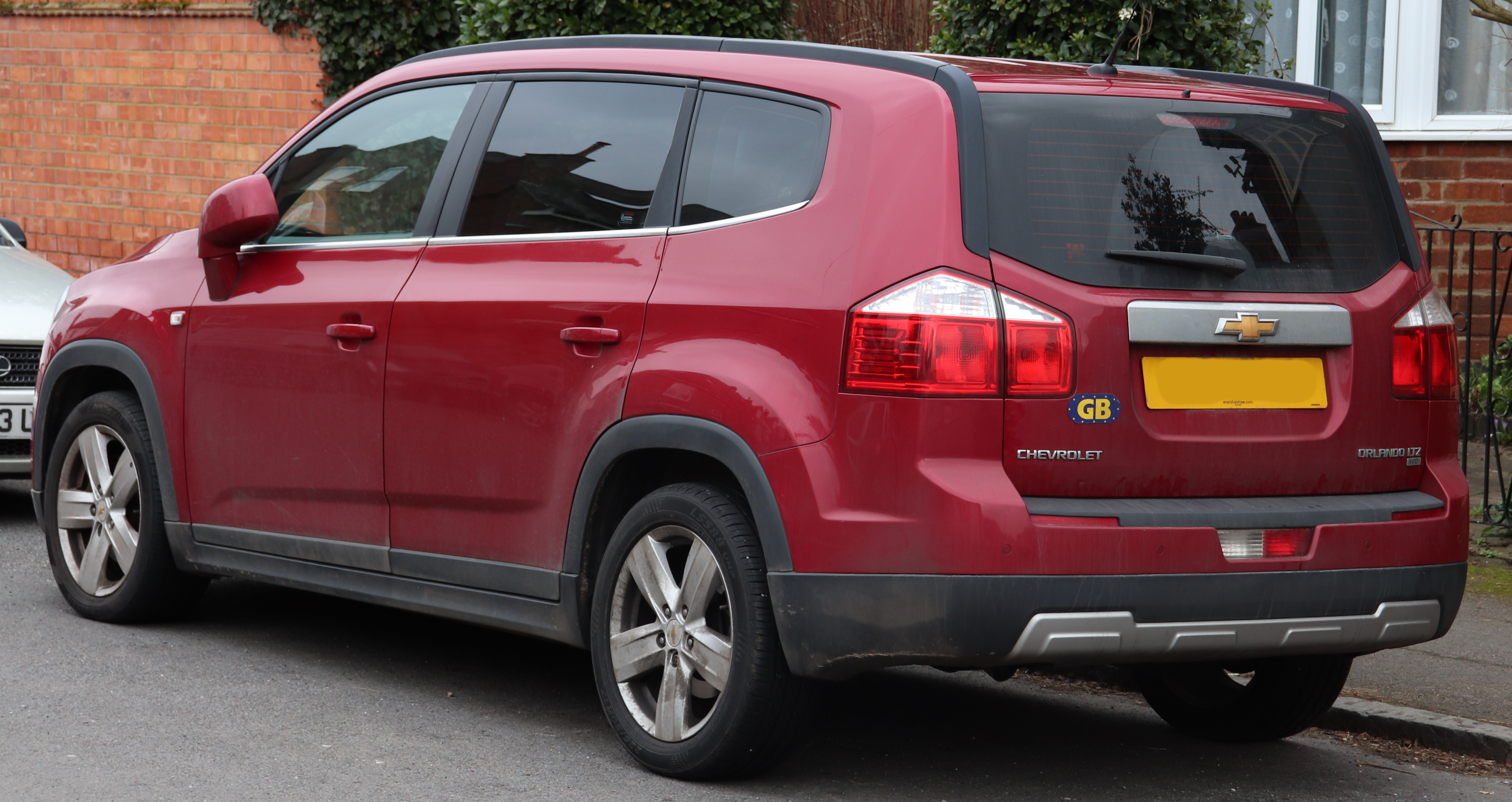 2012 Chevrolet Orlando LTZ VCDi Automatic 2.0 Rear Taken in Leamington Spa